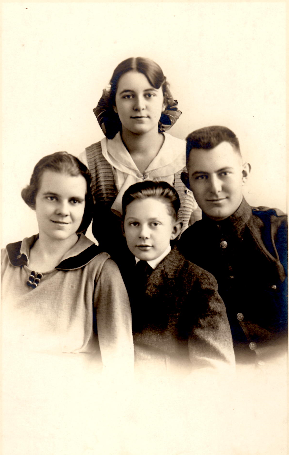 Katharine Whitney Curtis, George, Robert & Jane Whitney